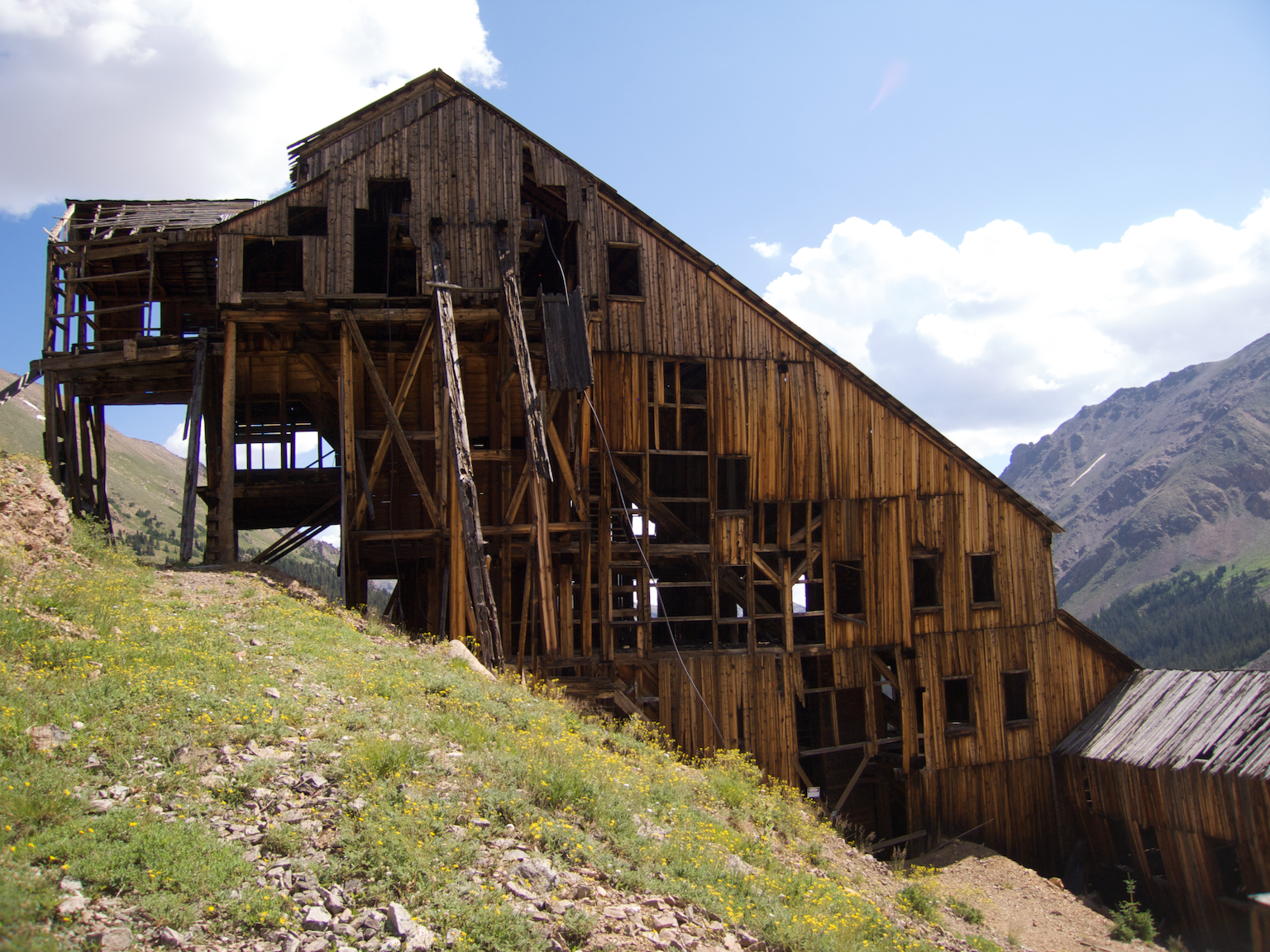 Southern side of the Champion Mill, in Lake County Colorado